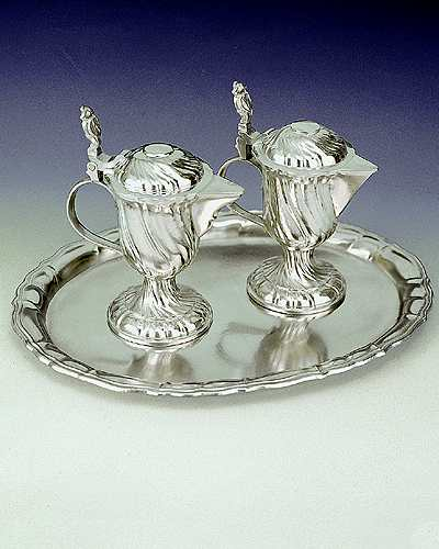 Silver Mass cruits